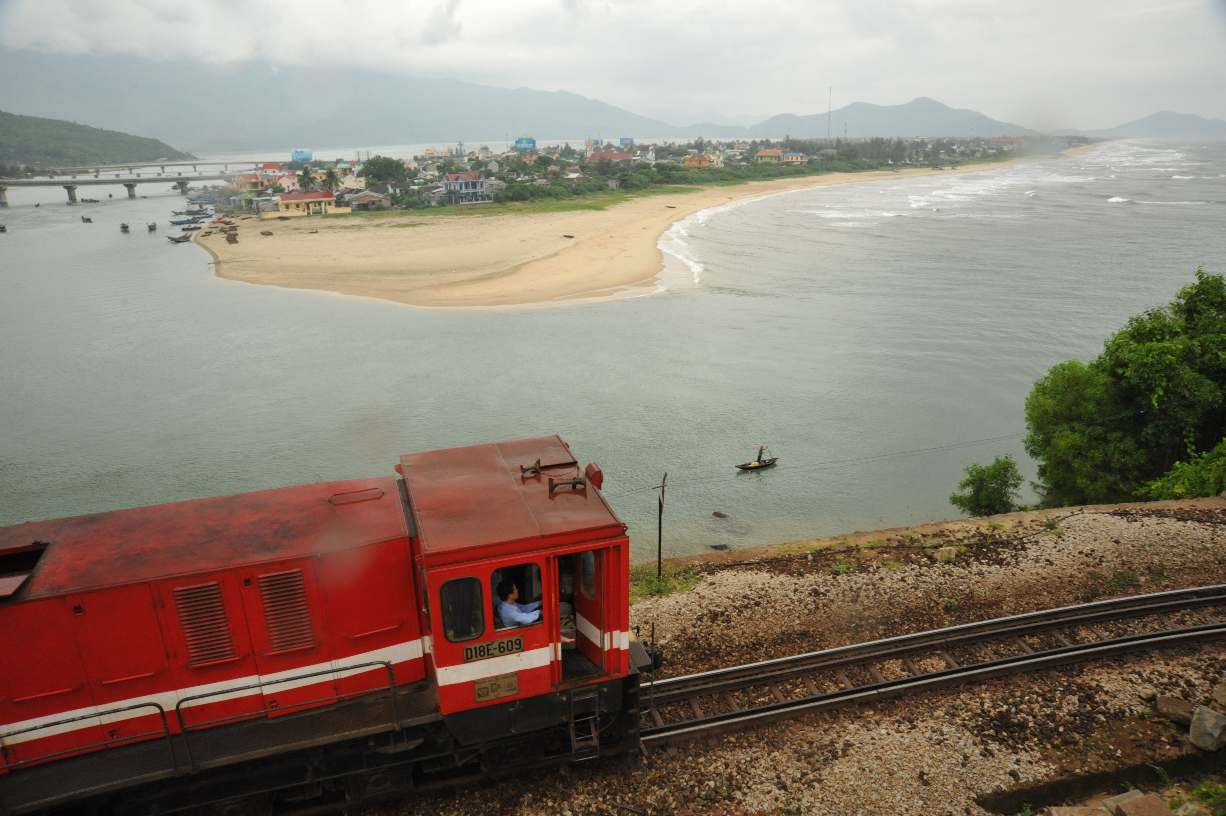 Overlooking the mouth of a river and the beach head, the locomotive and small fishing boat face in the same direction on this rainy overcast day. Lang Co Strait, Vietnam, SE Asia